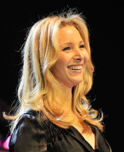 Lisa Kudrow at the 2009 Streamy awards